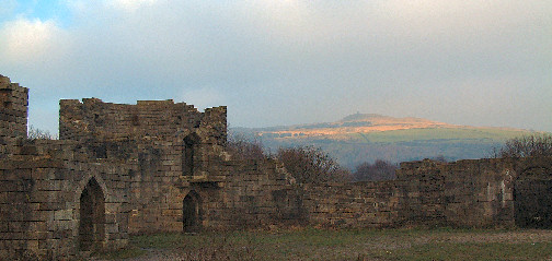 Liverpool Castle. The replica Liverpool Castle (folly) built by Lord Lever sits on the bank of the reservoir in the extreme southeast corner of this square. The view is to the east with Rivington Pike in the distance